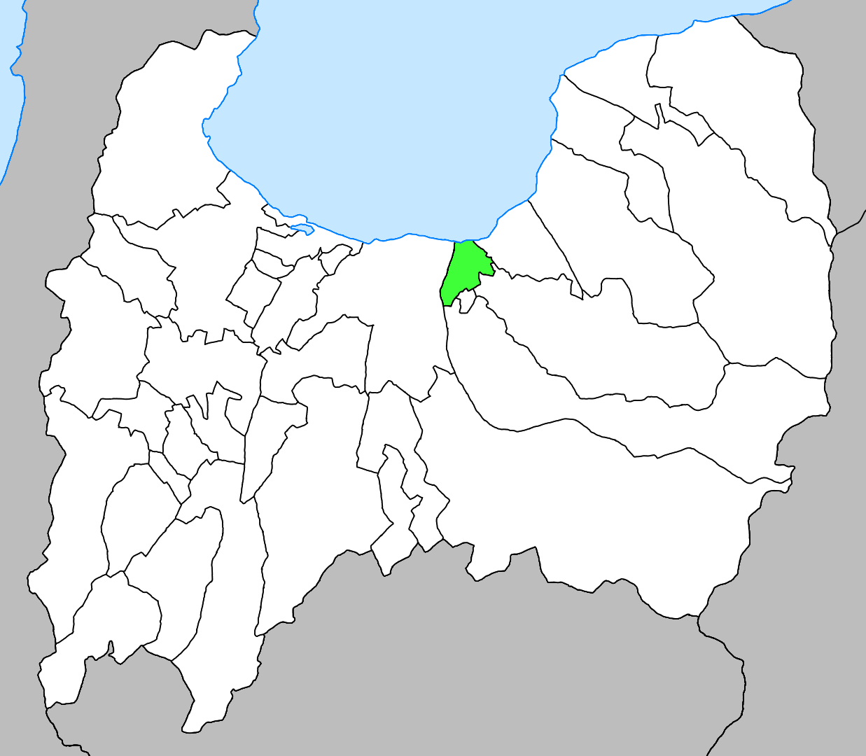 Map of Mizuhashi-machi, Toyama Prefecture